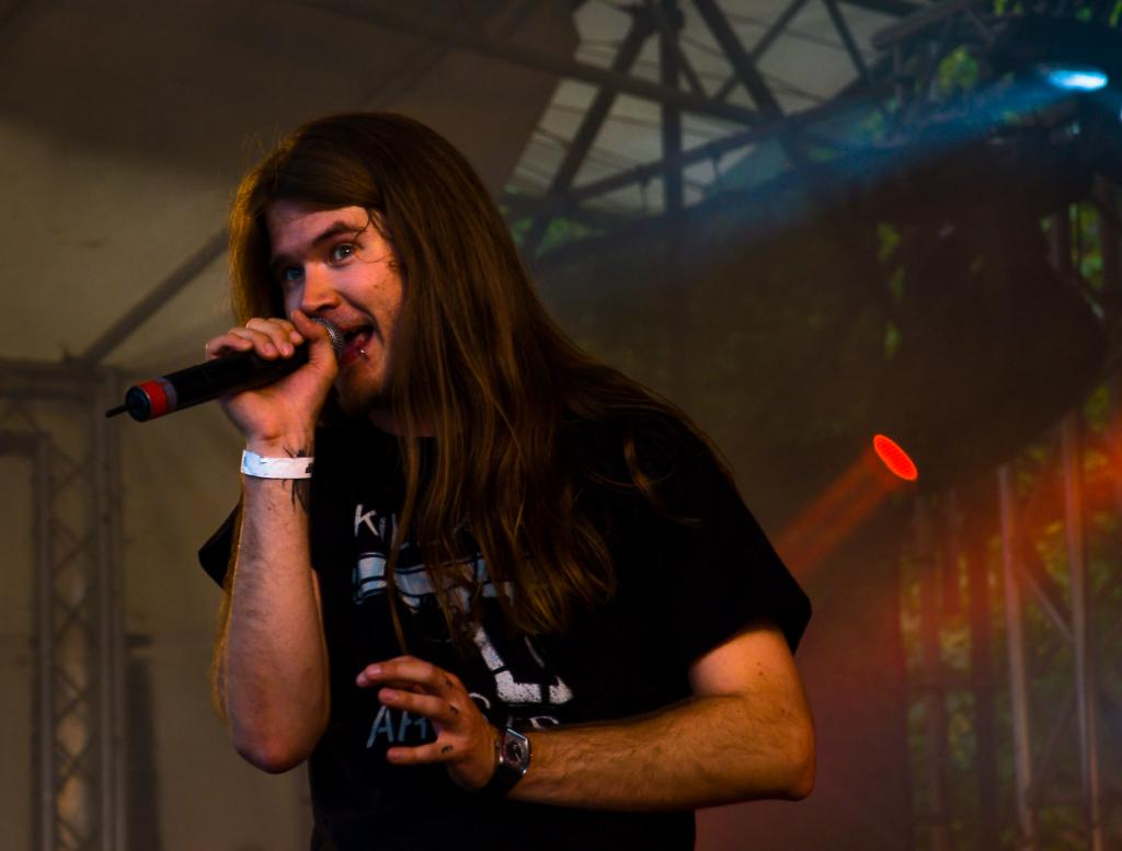 German music artist Alexander Kaschte at the gig of his band Samsas Traum at Amphi Festival 2007.